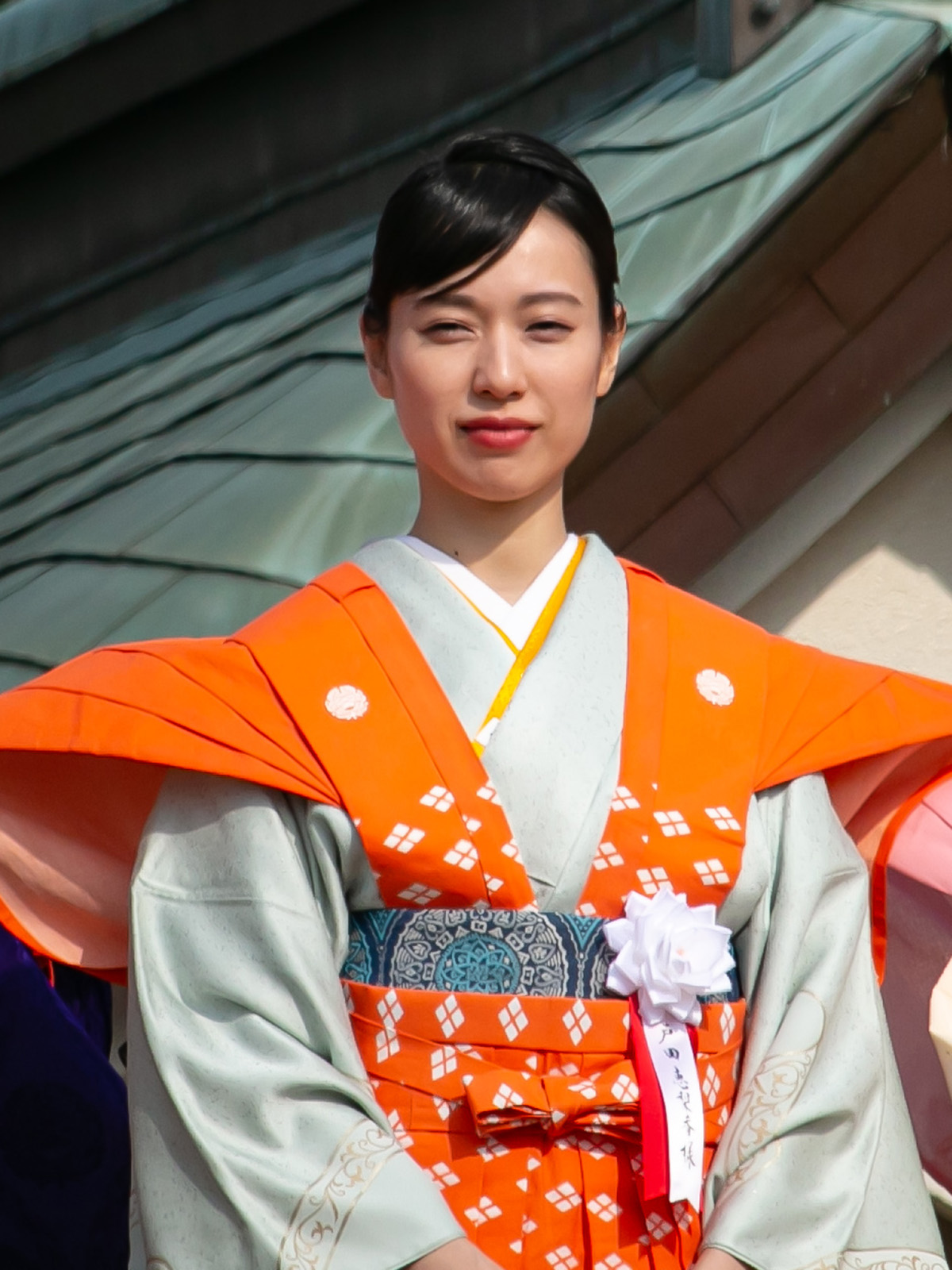 Erika Toda.